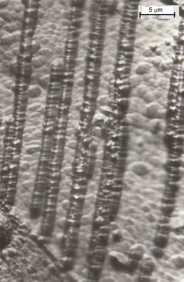 Details of glide traces as rows of etch pits on the electrolytically polished surface of CrNiTi steel near by a Vickers indentation